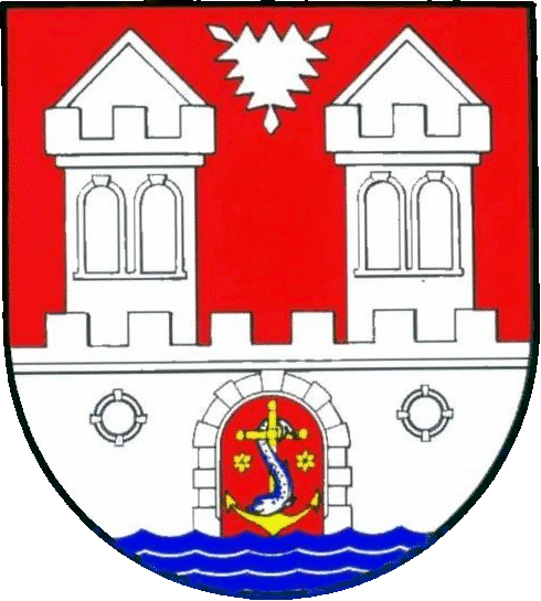 Coat of arms of the Stadt (town) Uetersen in Schleswig-Holstein, Germany.